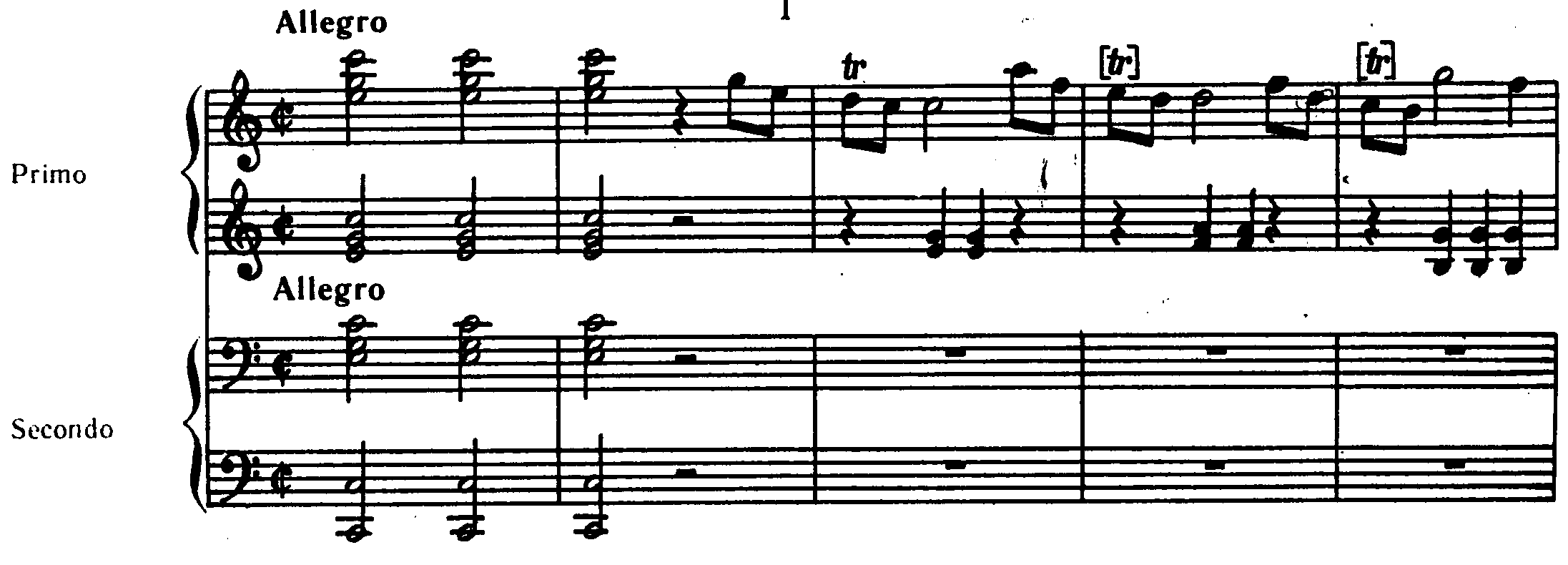 Snippet from the Allegro of K. 19d